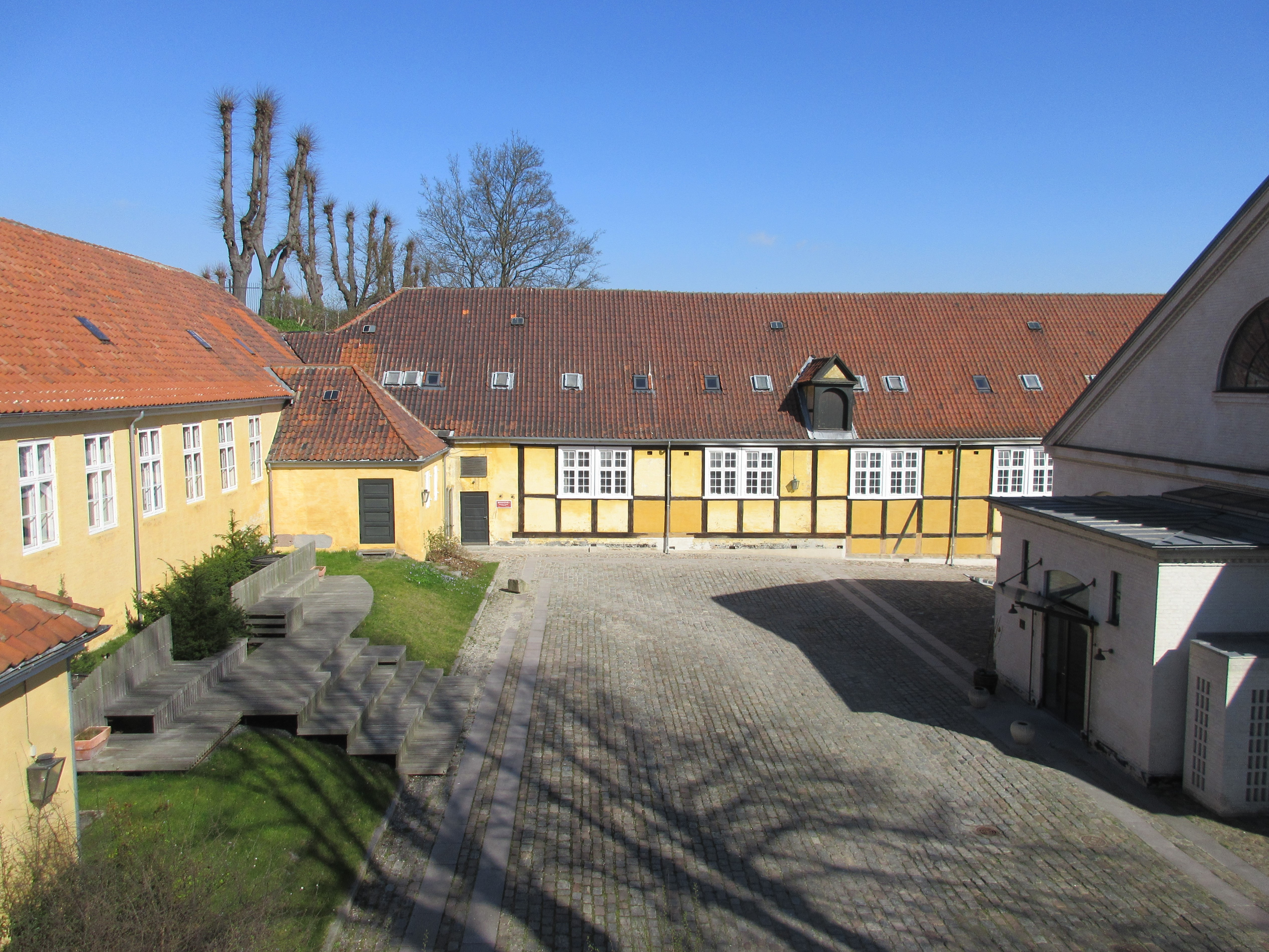 The western end of the north wing of Lakajgården in Frederiksberg, Denmark